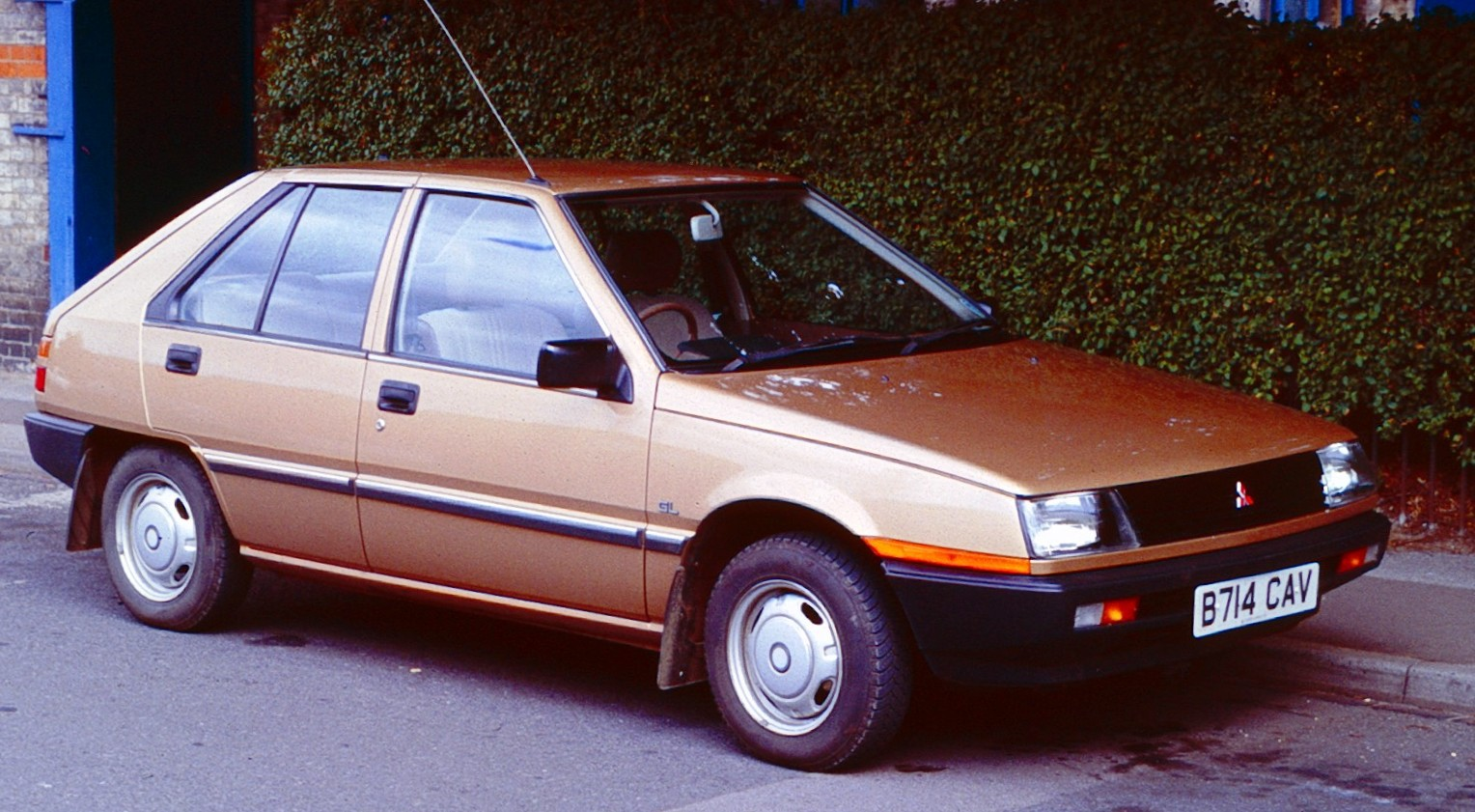 Mitsubishi Colt 1985 in Cambridge